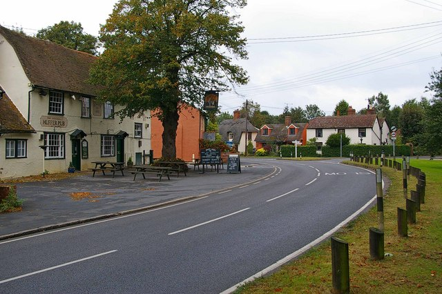 White Hart, Great Saling. This is the White Hart, Great Saling. Opposite it on the green is an unusual mini pillbox see 577190